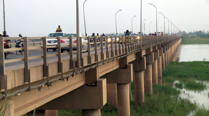 Echanges commerciaux entre le Tchad et Cameroun This is an image with the theme "Africa on the Move or Transport" from: Chad